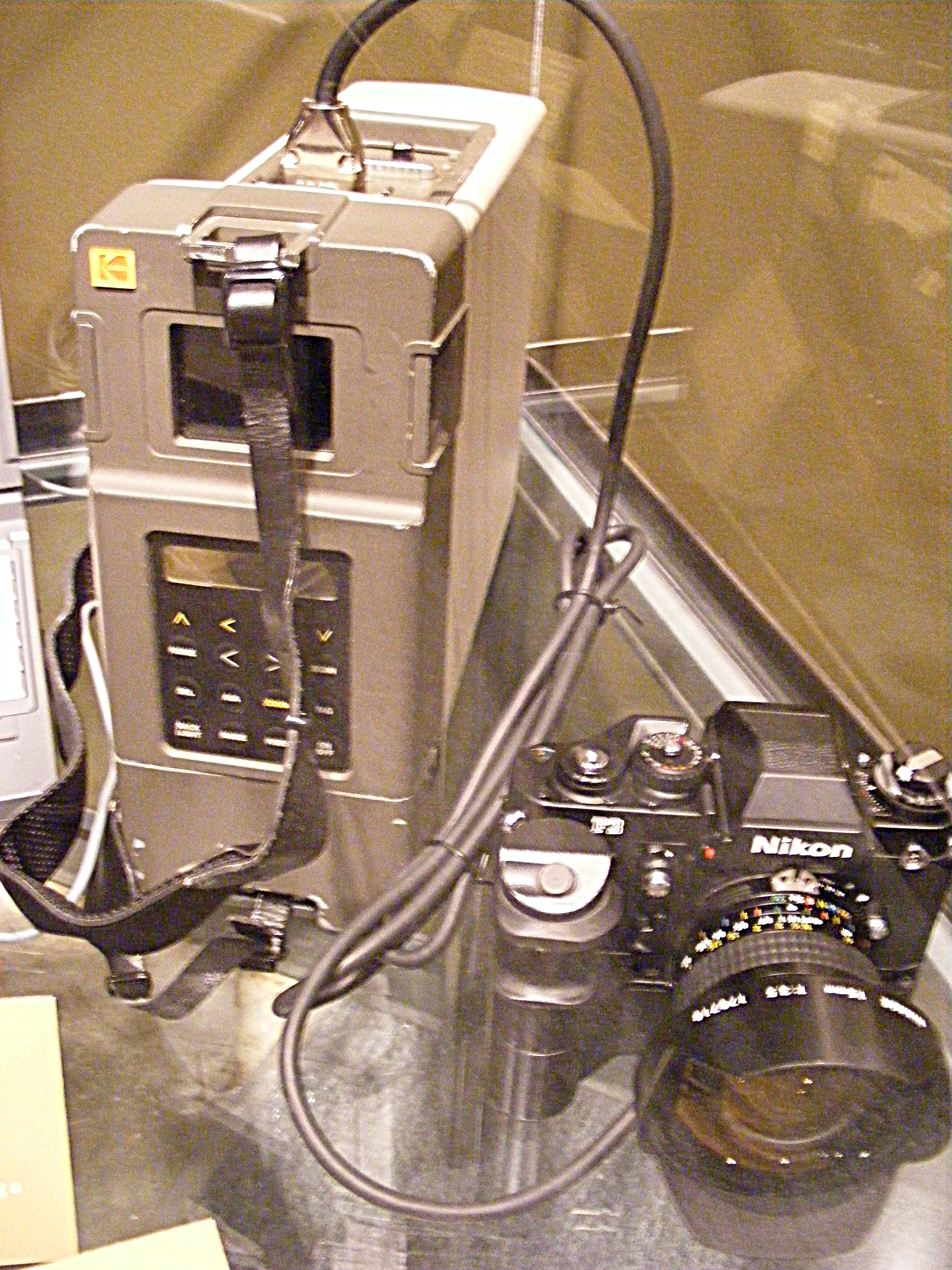 Kodak DCS 100, based on a Nikon F3 body with a monstrous Digital Storage Unit, released in May, 1991. The images were 1.3 MP and stored on a 200 Meg hard drive in the shoulder-carried DSU. Eastman House, Rochester, NY Hey, I remember when cell phones were this big too!